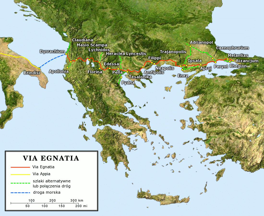 Polish map of the antic Roman Via Egnatia crossing the South of the Balkans.